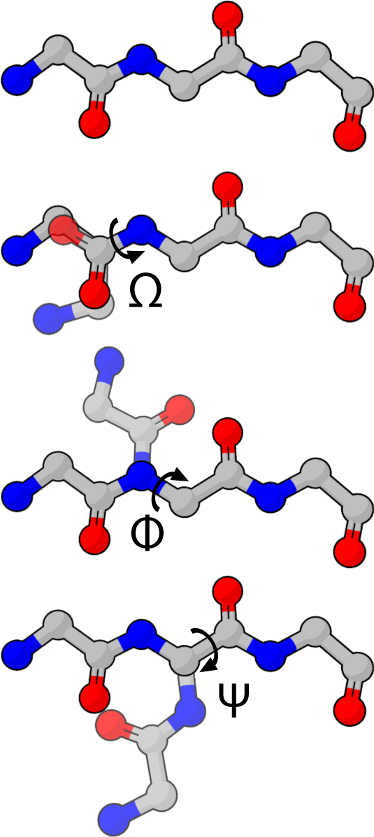 The backbone dihedral angles are included in the molecular model of a protein.